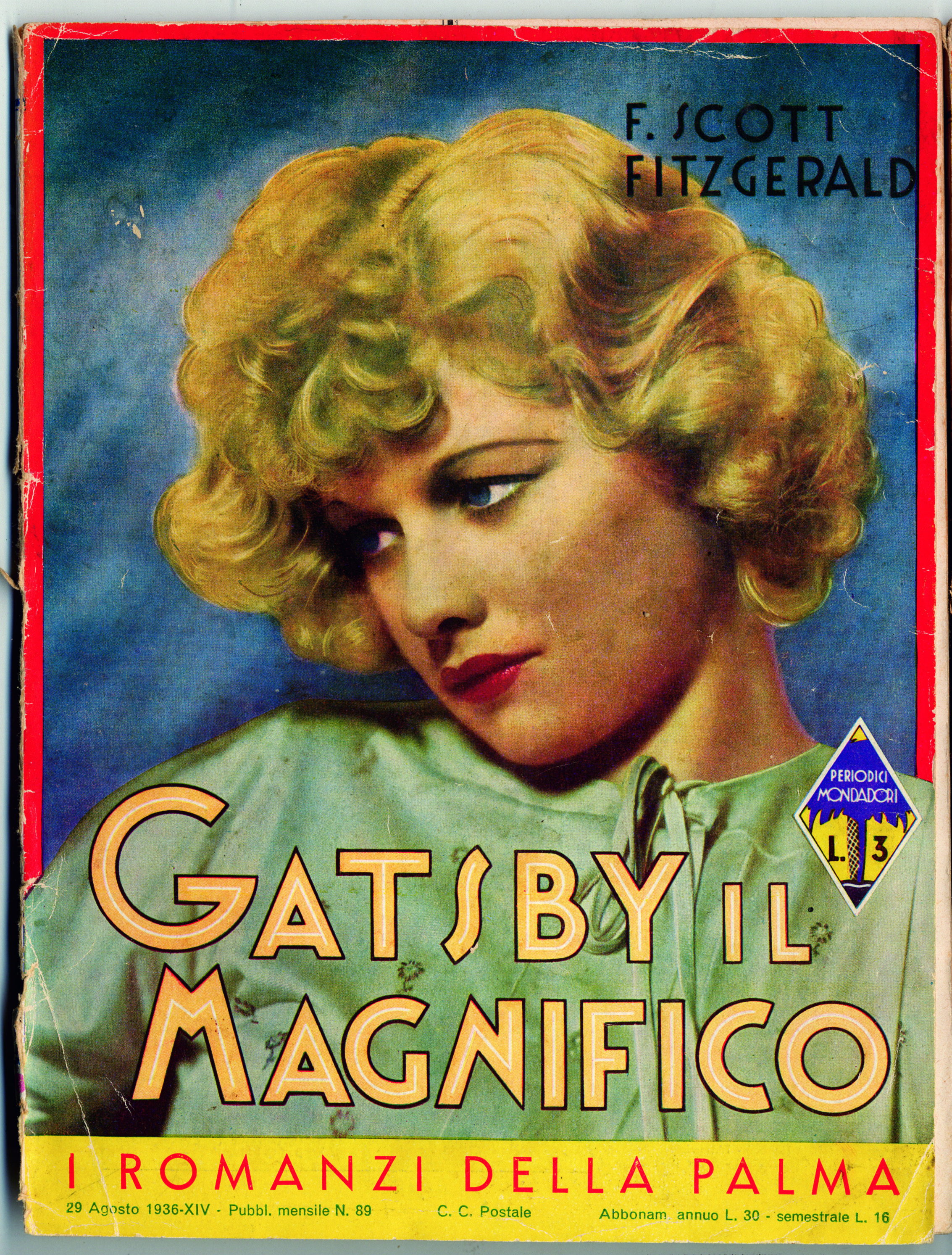 Francis Scott Fitzgerald, The Great Gatsby, published by Mondadori in 1936.